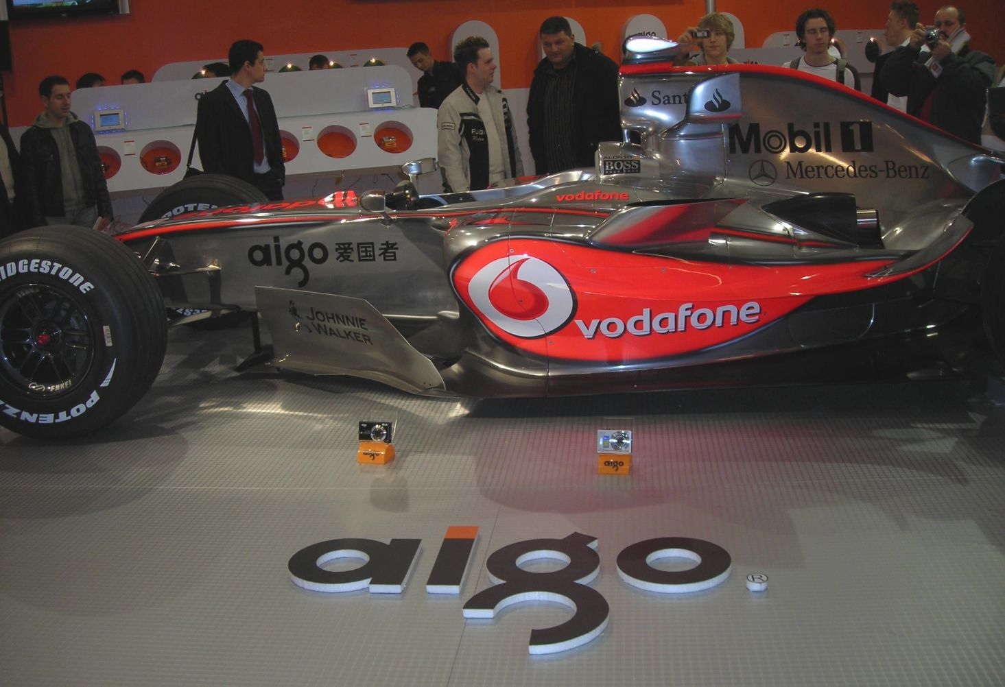 Bolid of Formula 1, Cebit, 2007, Hannover